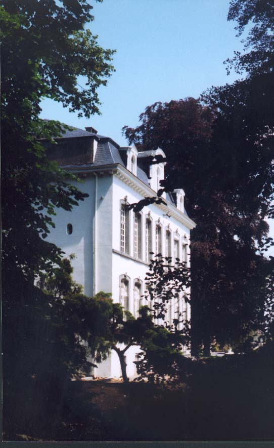 Sideview of Chateau du Jardin, Tongre Notre Dame, Belgium